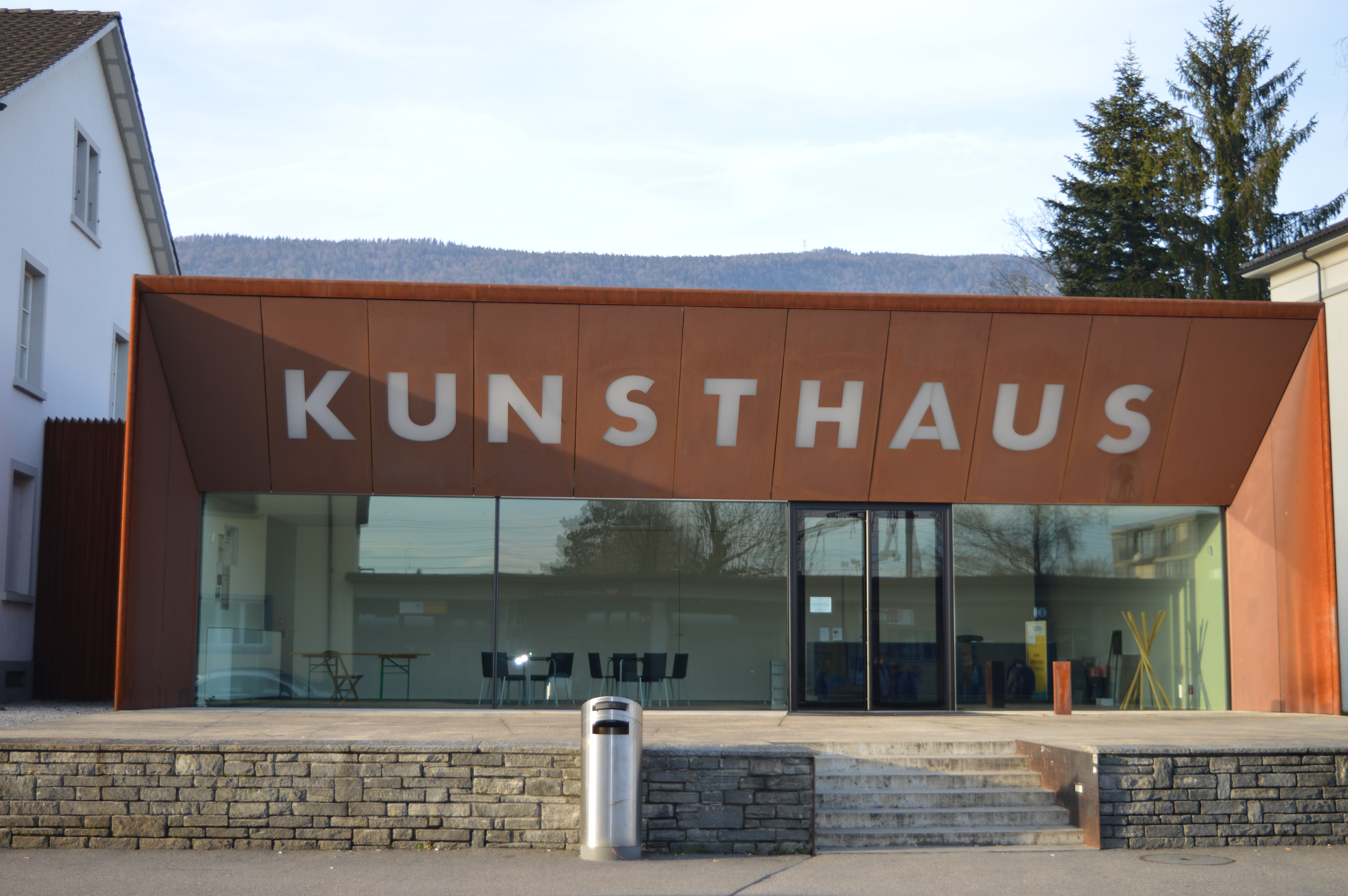 Art Gallery Grenchen, canton of Solothurn, Switzerland